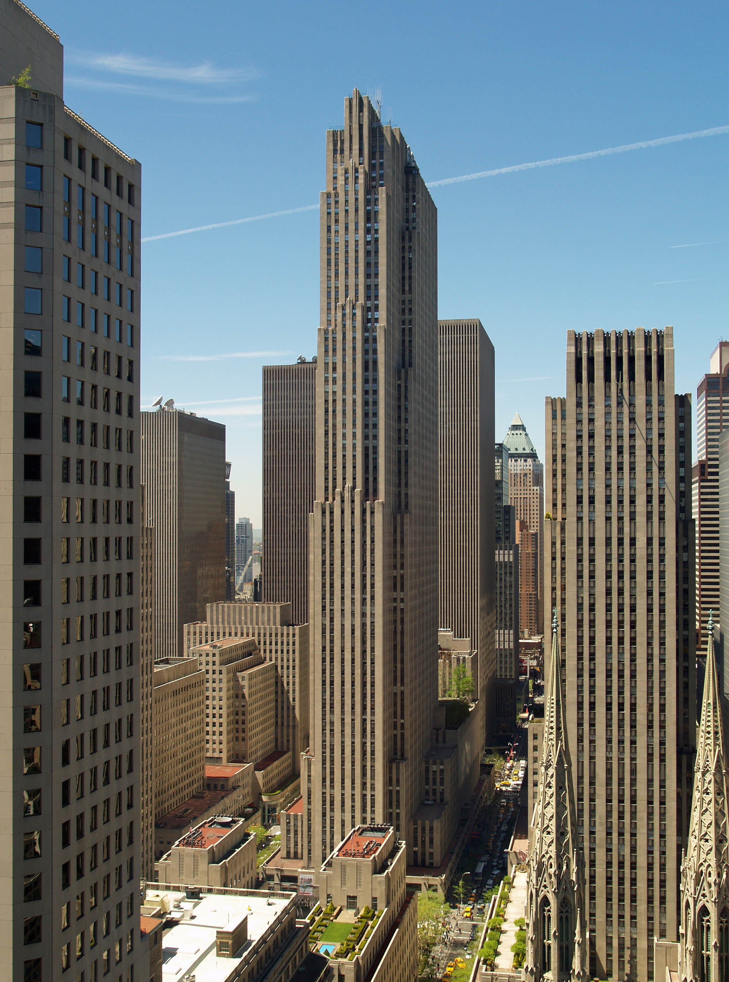 GE Building NY